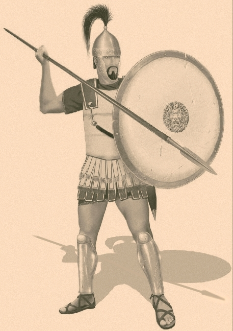 The Sacred Band Carthaginian Hoplite; artistic reconstruction obtained from a coin of Syracuse (end of the fourth century BC).